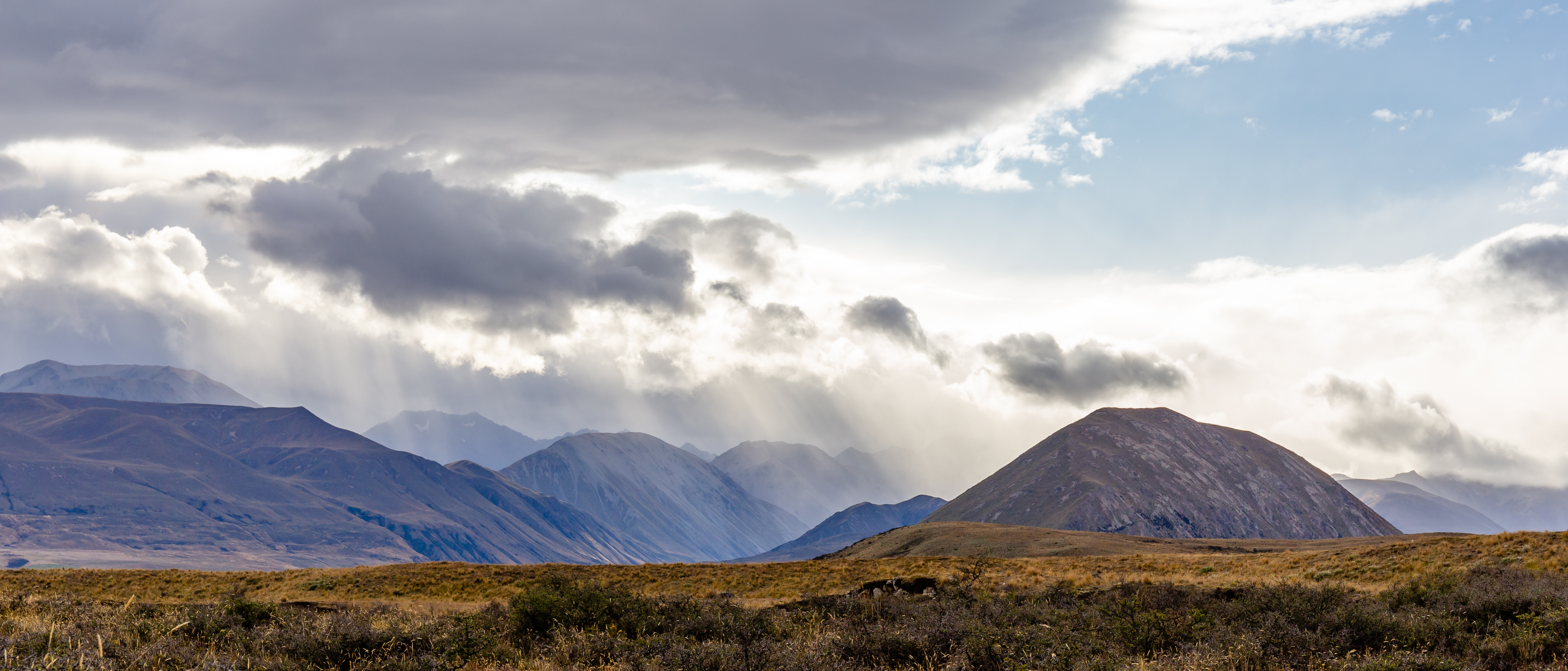 Rainy clouds over Wild Mans Brother Range, Canterbury, New Zealand